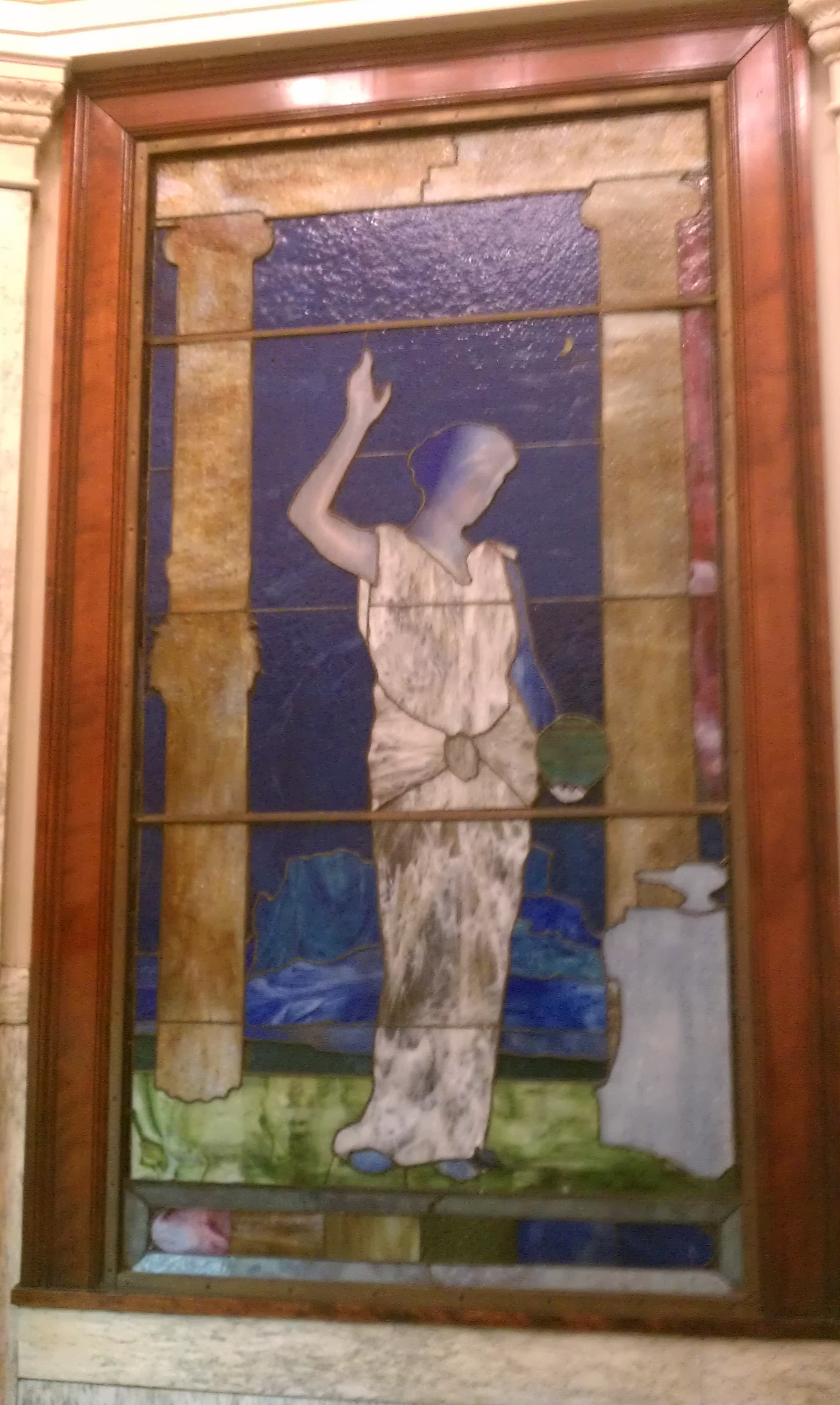 Allegheny Observatory The University of Pittsburgh's Allegheny Observatory